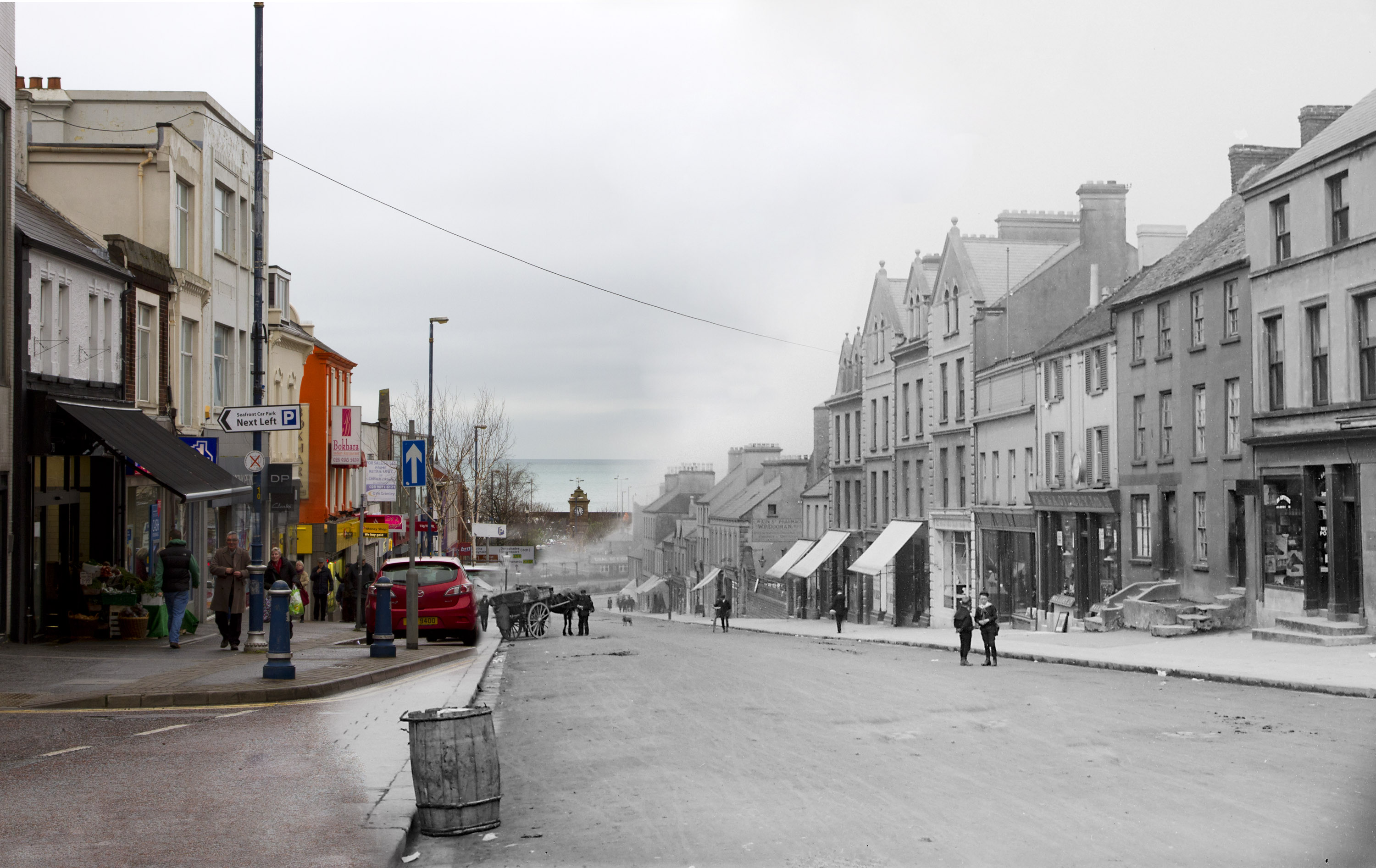 Creator: Photographer of archive image - Herbert Cooper Date: c.1910 & 23rd January 2015 Original Format: Glass Plate Negative Description: Main Street, Bangor, County Down - merged with modern photograph of the same location. PRONI Ref (of archival image): D1422/A/2/1/6 Copying and copyright: Please For Copy Orders, contact: For fees and charges